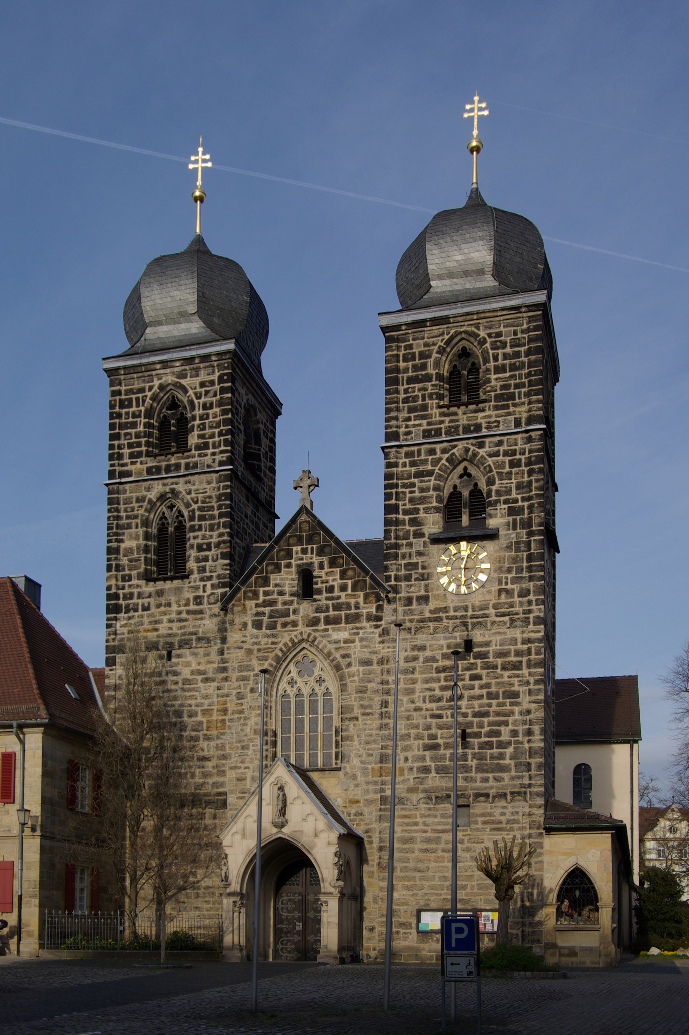 Germany, Bamberg, church St. Gangolf